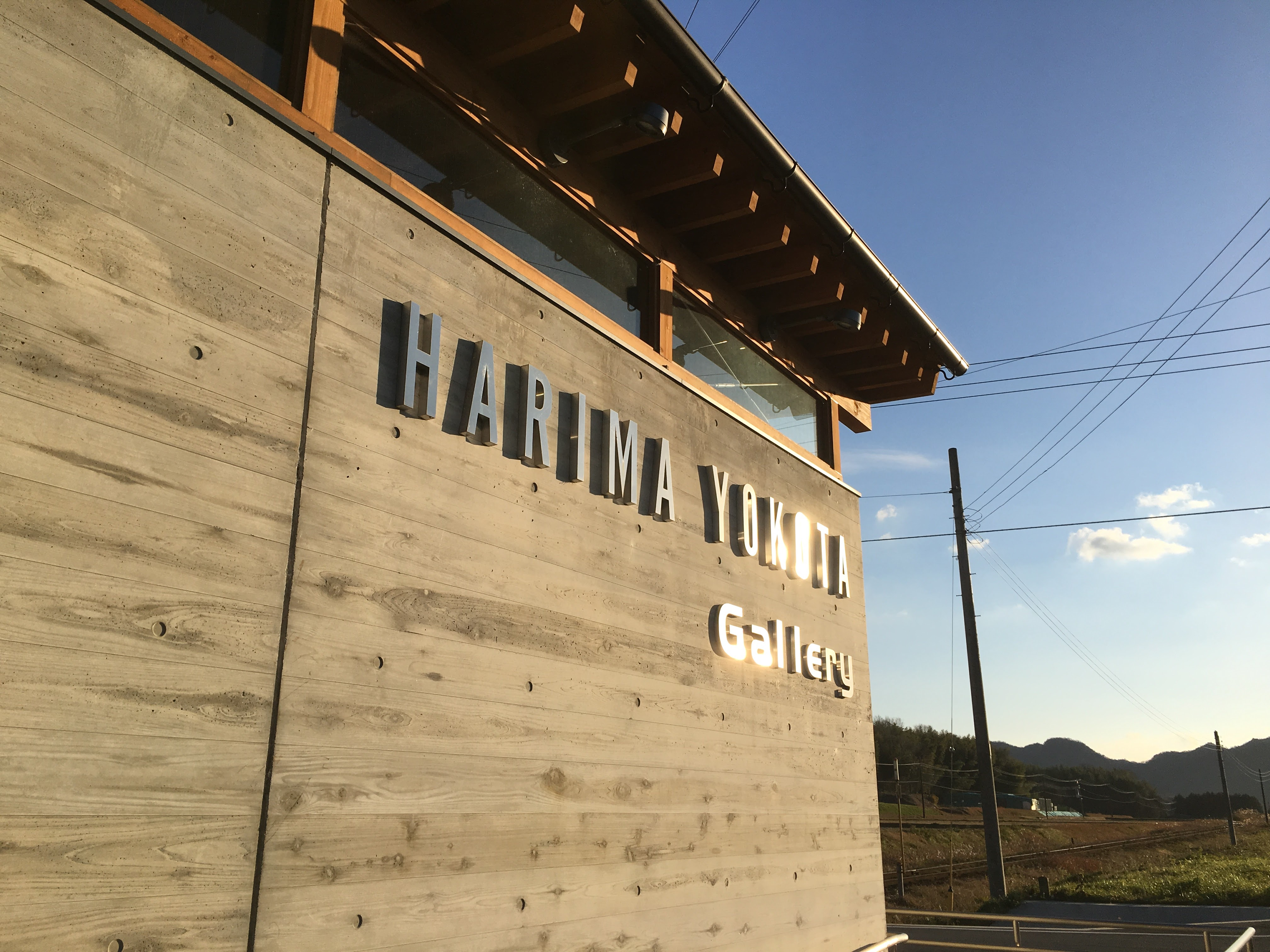 Harima-Yokota Station